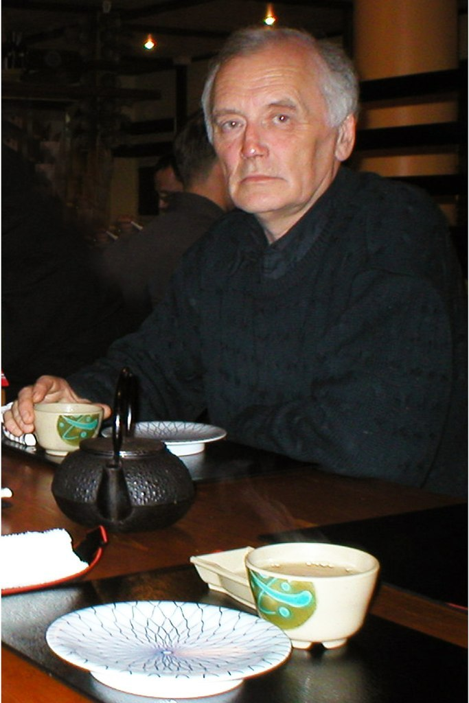 Montlevich